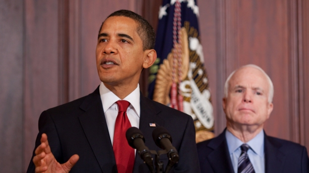 President Barack Obama speaks about government contracting reform.